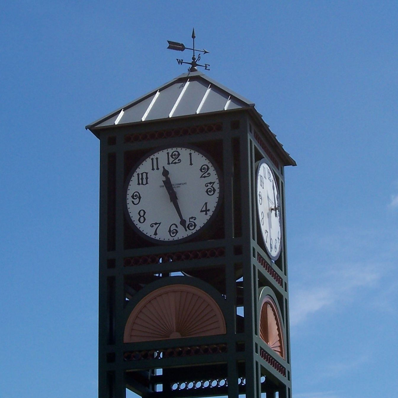 Clock tower in downtown Longwood Longwood, Florida, USA Photo taken June 2005 by Tetraminoe Copyright © 2005 by Gavin Baker. Some rights reserved. See photoset on Flickr